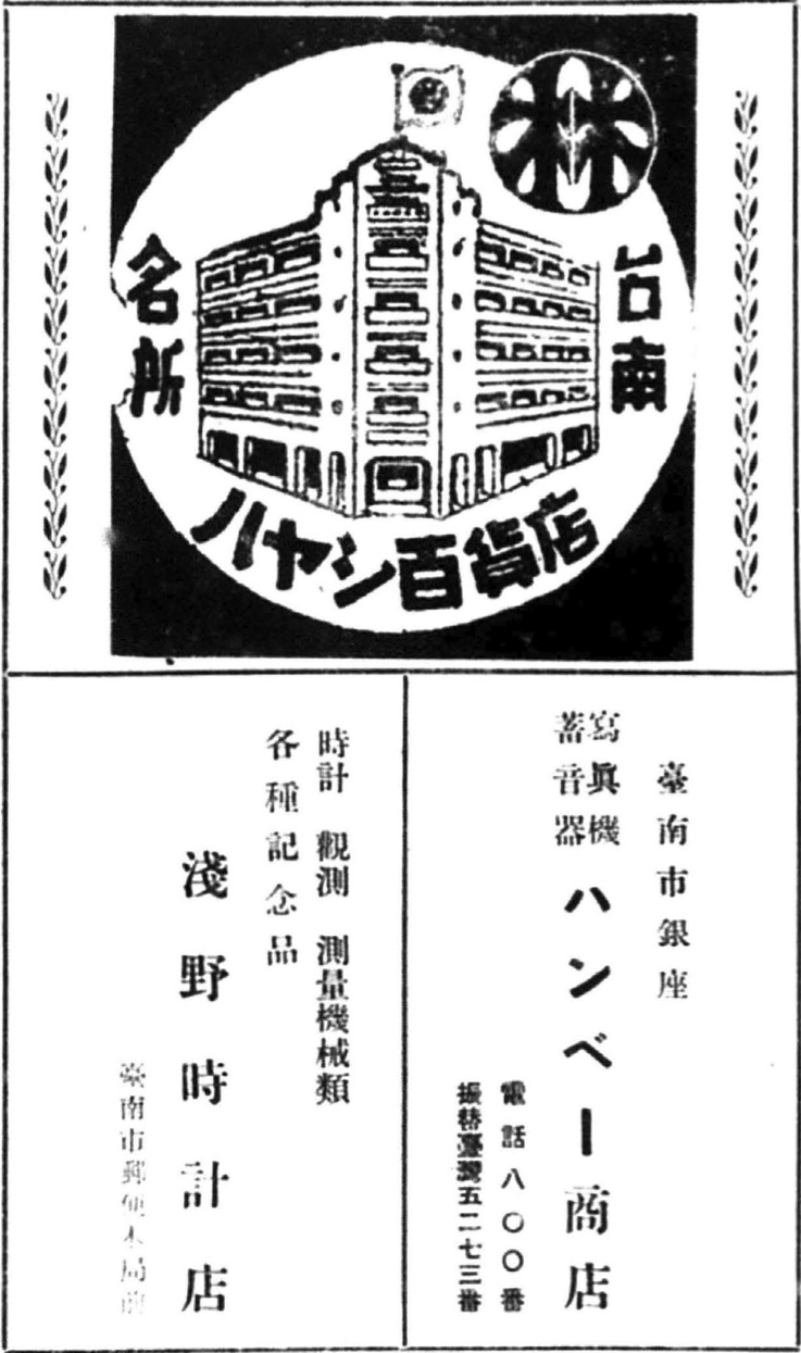 Advertisement of Hayashi Hyakaten 1942